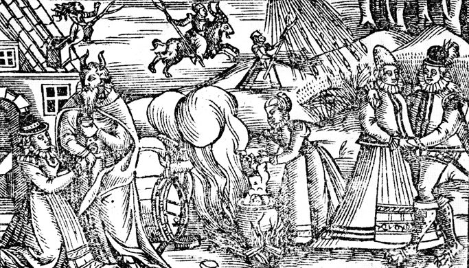 artwork depicting various witch practices